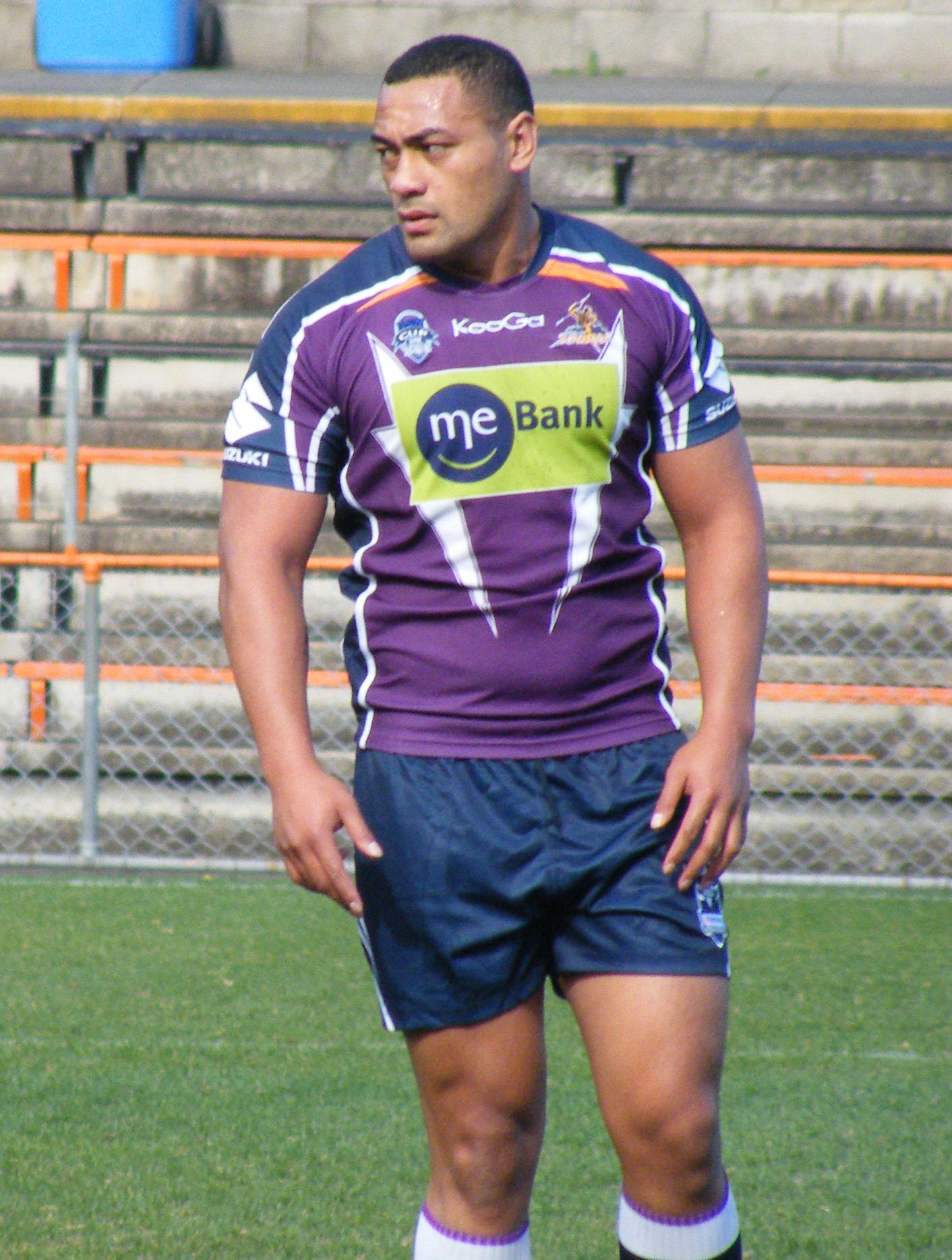 Sione Kite of the Melbourne Storm RLFC.